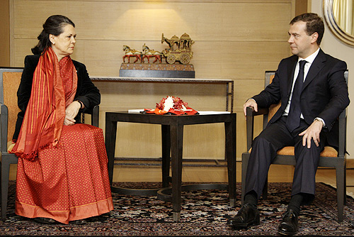 NEW DELHI. With Chairwoman of the Indian National Congress Party Sonia Gandhi.